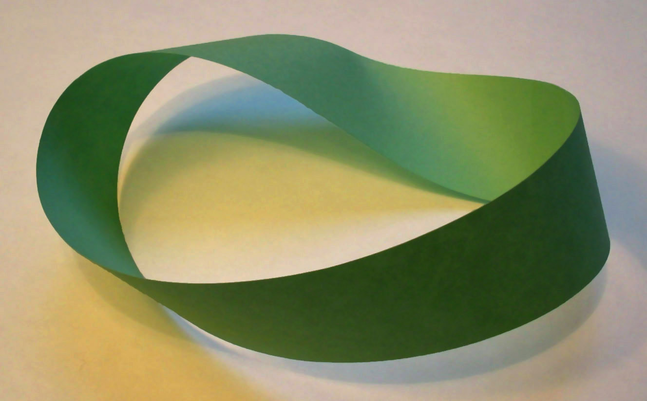 A photograph of a green paper Möbius strip. David Benbennick took this photograph on March 14, 2005. For scale, the strip of paper is 11 inches long, the long edge of a U.S. standard piece of "letter size" paper. The background is a piece of white paper. The strip is held together by a piece of clear duct tape, behind the top-right curve.